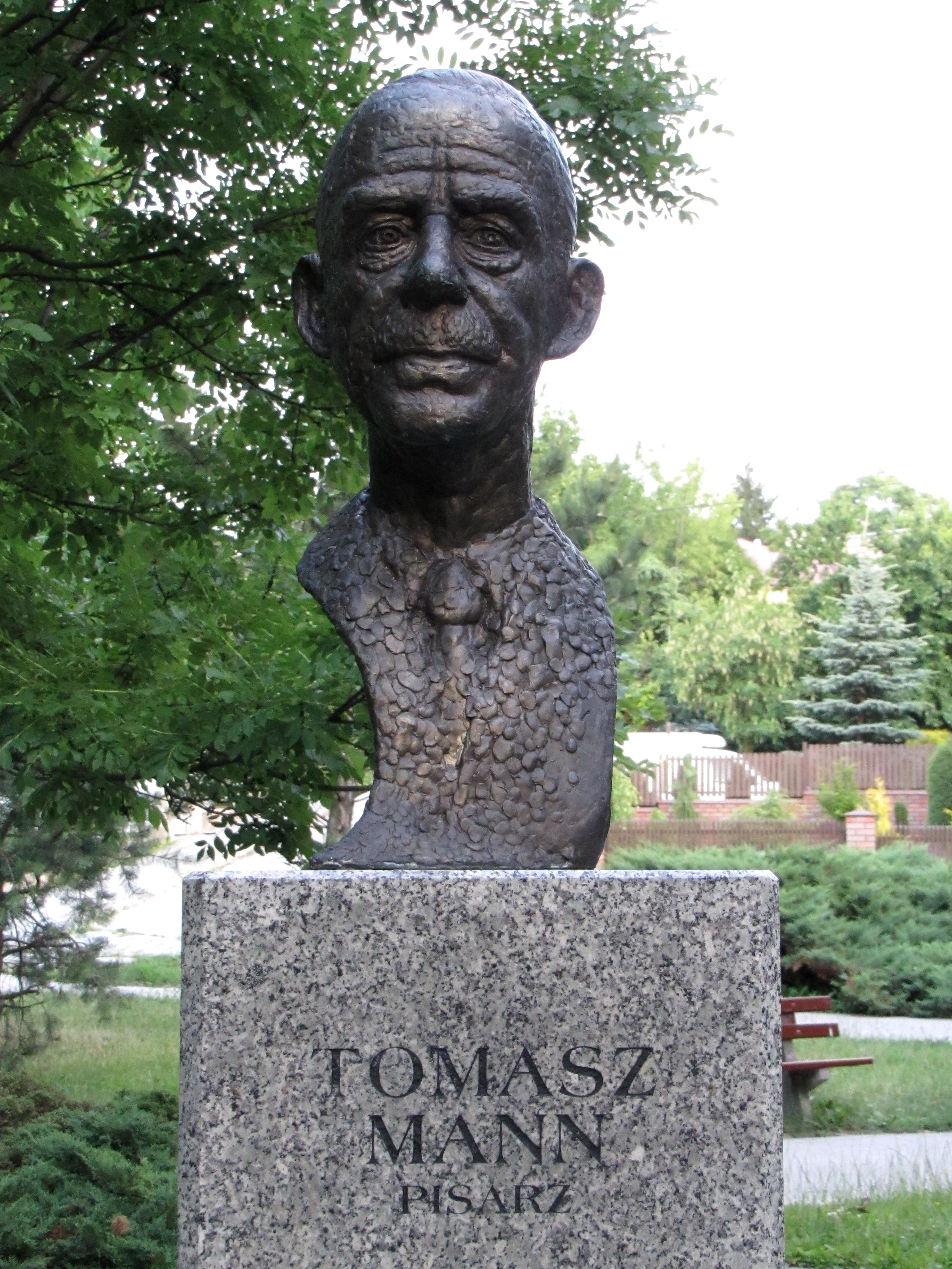 Bust of Thomas Mann in Celebrity Alley in Kielce (Poland)